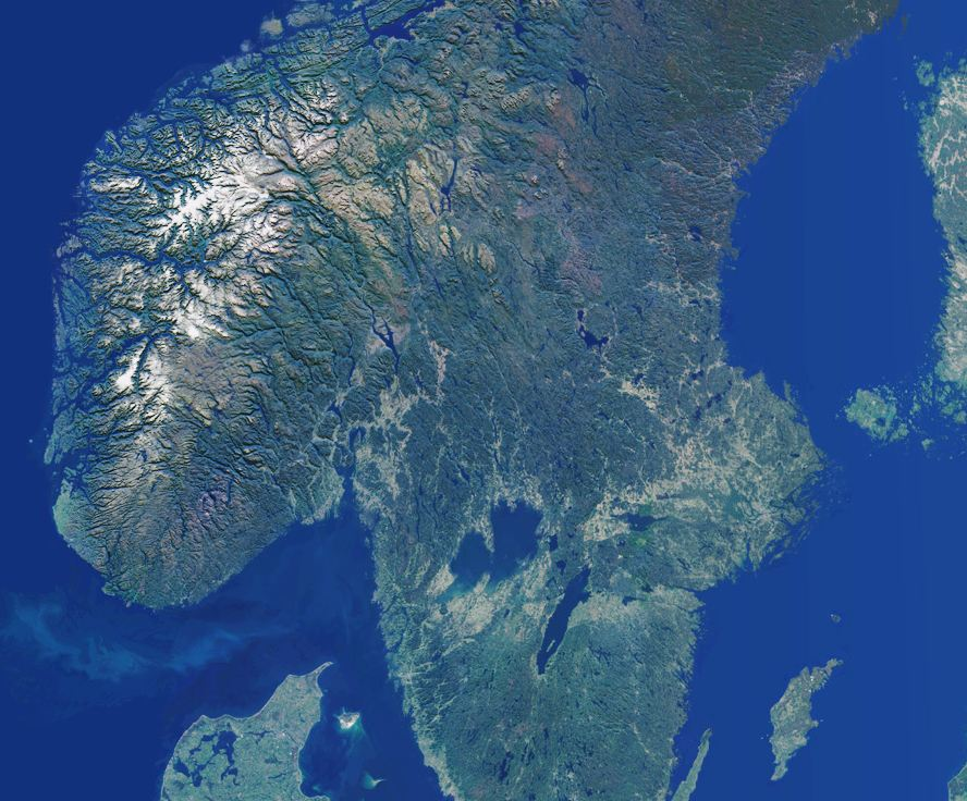 This image was copied from de. The original description was: Luftbild Skandinavien / Selbsterstellt aus (Public Domain)